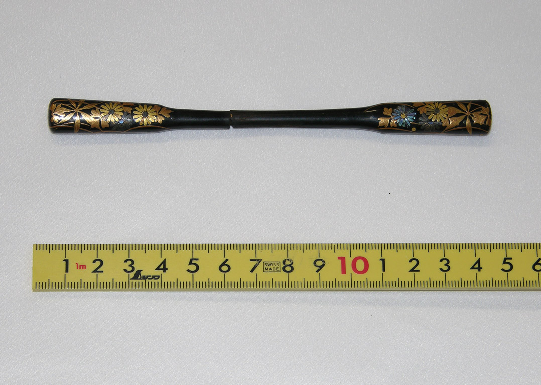 Kougai, used for hairdressing. Made from laquer-corted wood. Period unknown (maybe Maiji or Taishō).